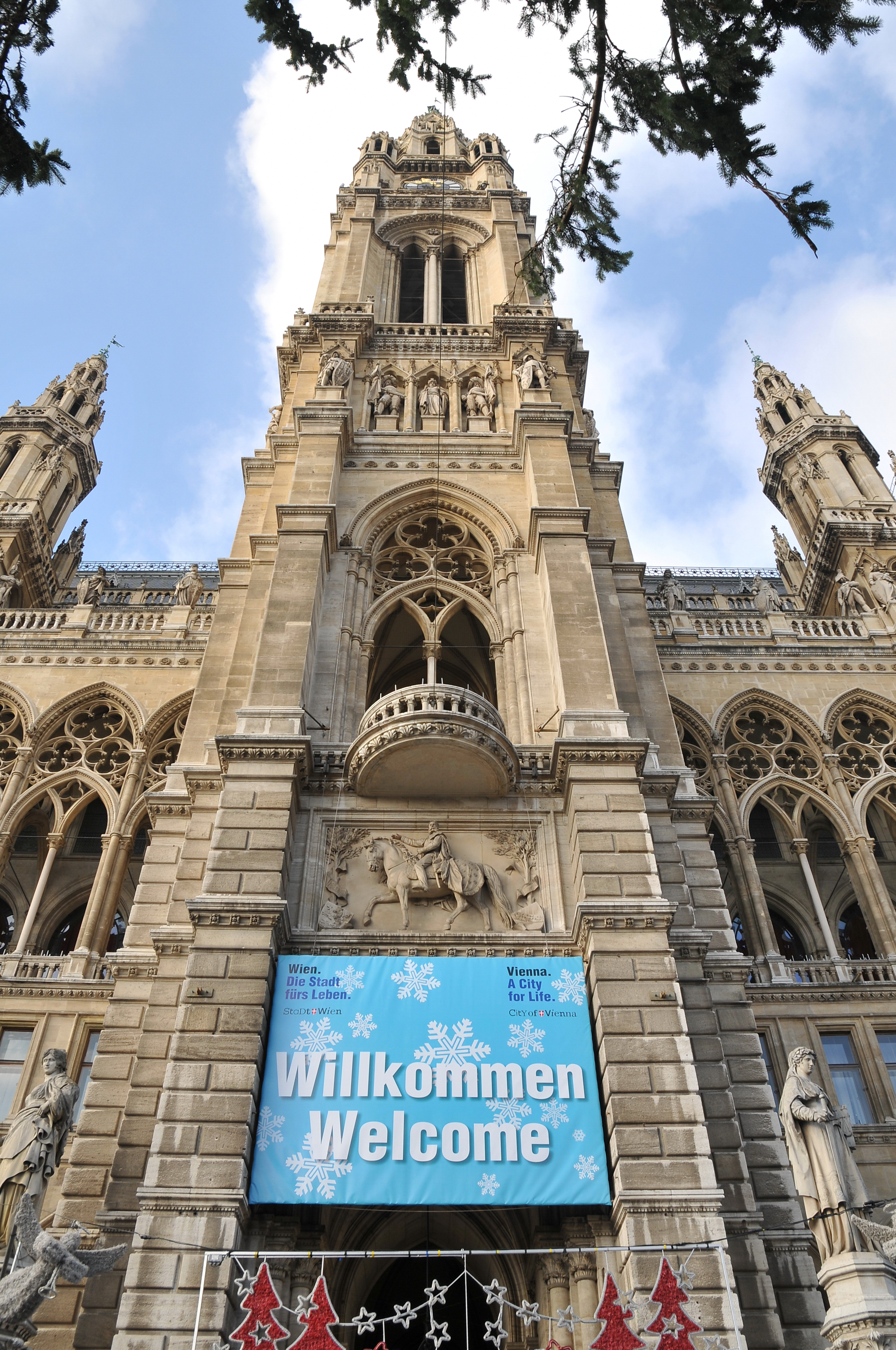 christkindlmarkt (advent market) in front of the town hall of Vienna.